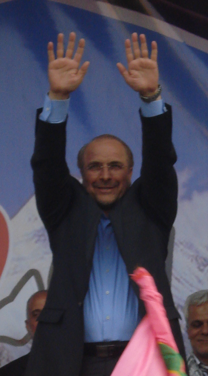 Mohammad Bagher Ghalibaf made speech in Tehran's Taleghani street, Mohammad Bagher Ghalibaf's supporters meeting